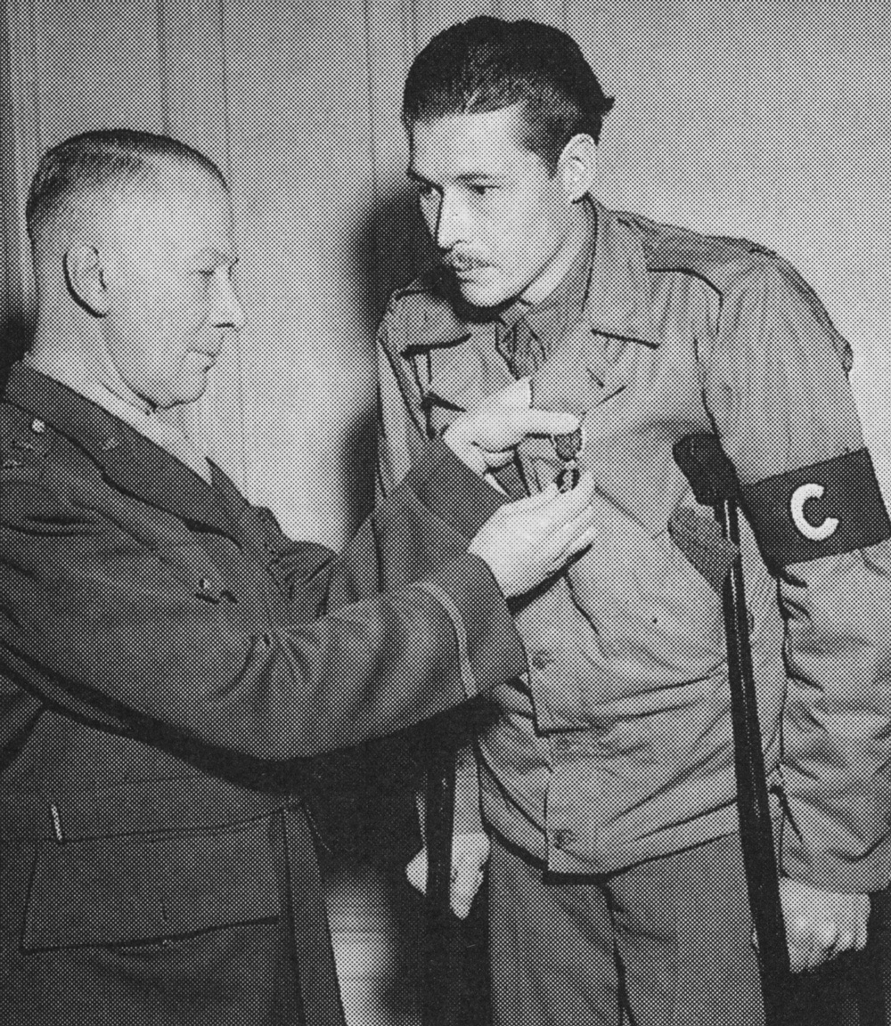 Major General Lloyd R. Fredendall decorating war correspondent Leo "Bill" Disher with a Purple Heart for wounds from the Operation Reservist.